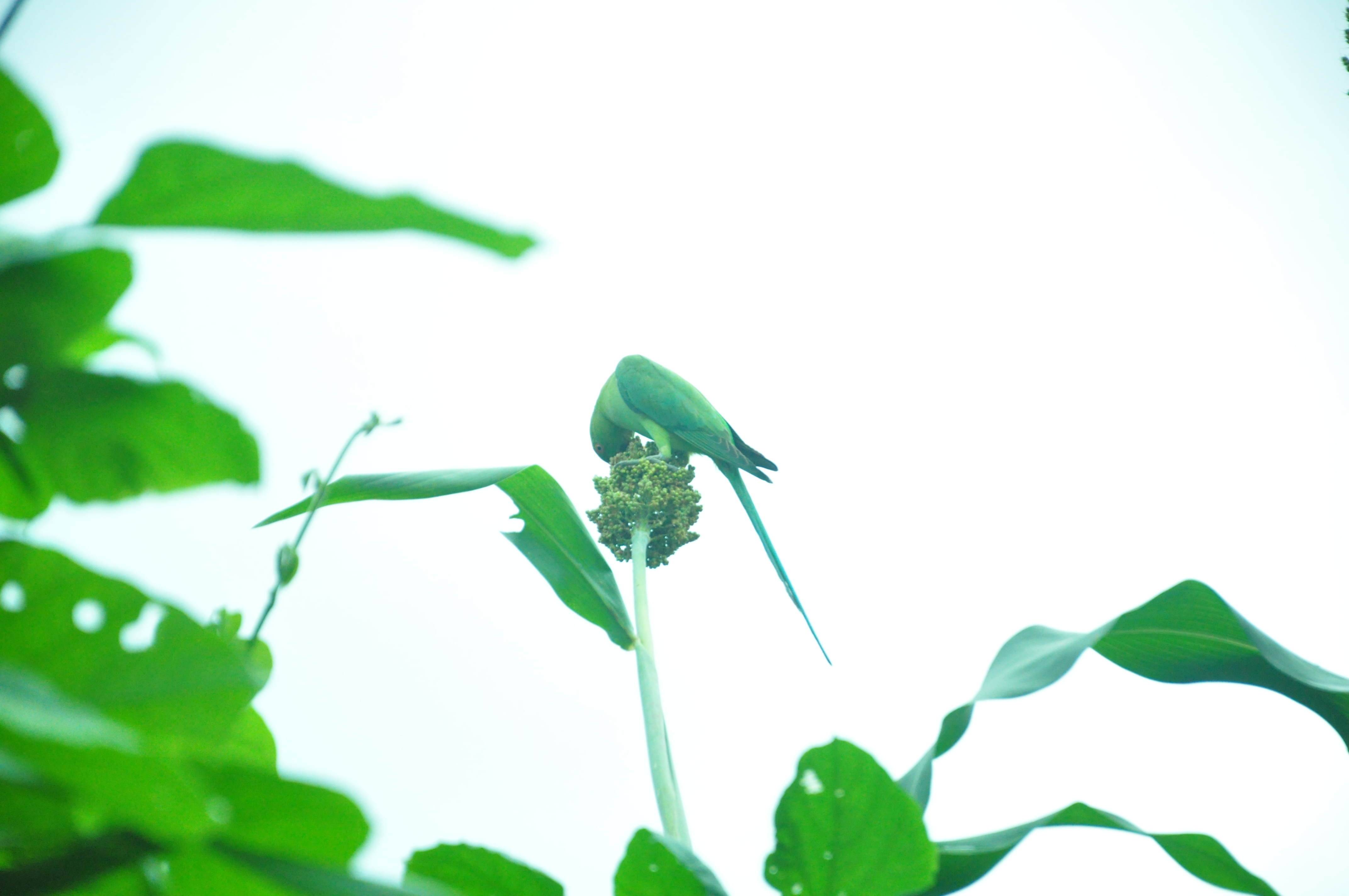 A Parrot is eating millet (Malayalam: ചാമ തിന്നുന്ന തത്ത)